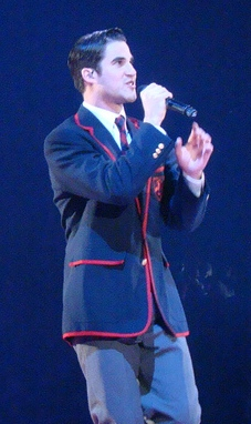 Darren Criss, in character as Blaine Anderson performing "Silly Love Songs" on the Glee Live! In Concert! tour in Manchester, England on June 23, 2011.